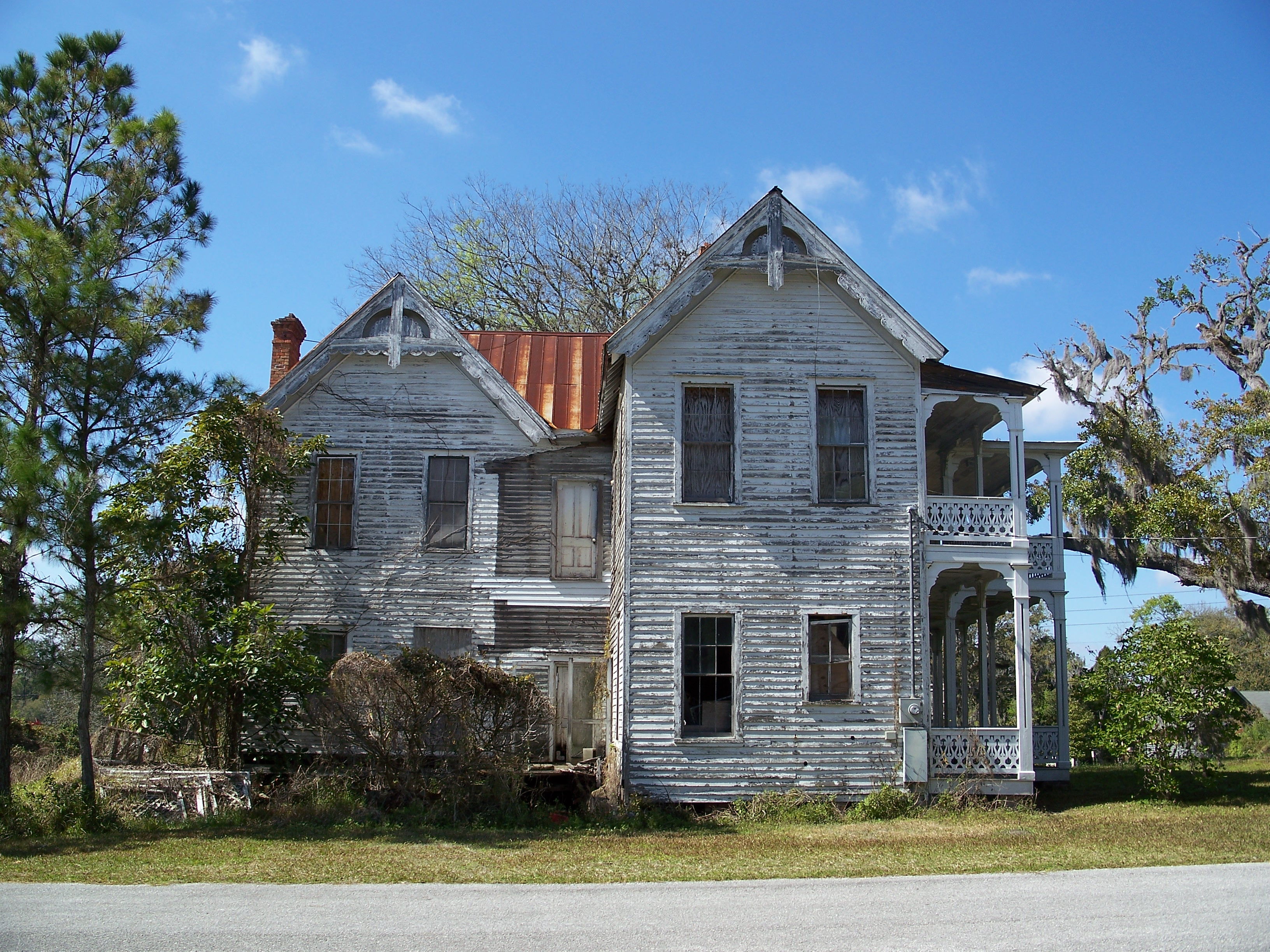 Frank Saxon House, in Brooksville, Florida